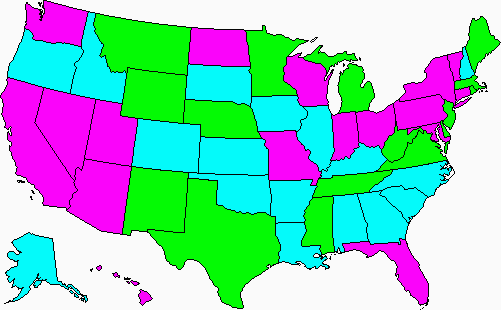 The image is a US map presenting the US senators classes.